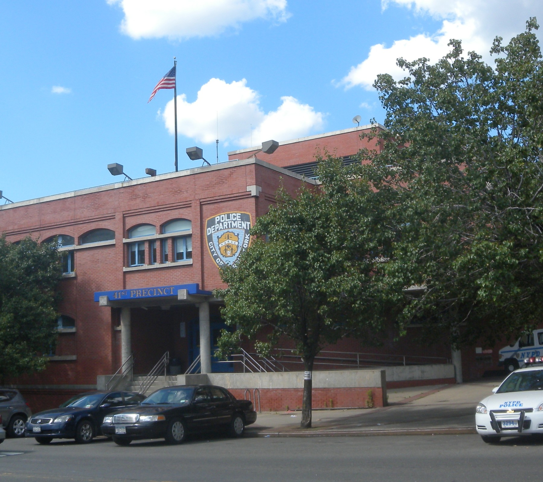 Looking north across Longwood Avenue at the newPulling out of Fort Apache 41 precinct on a mostly sunny afternoon.